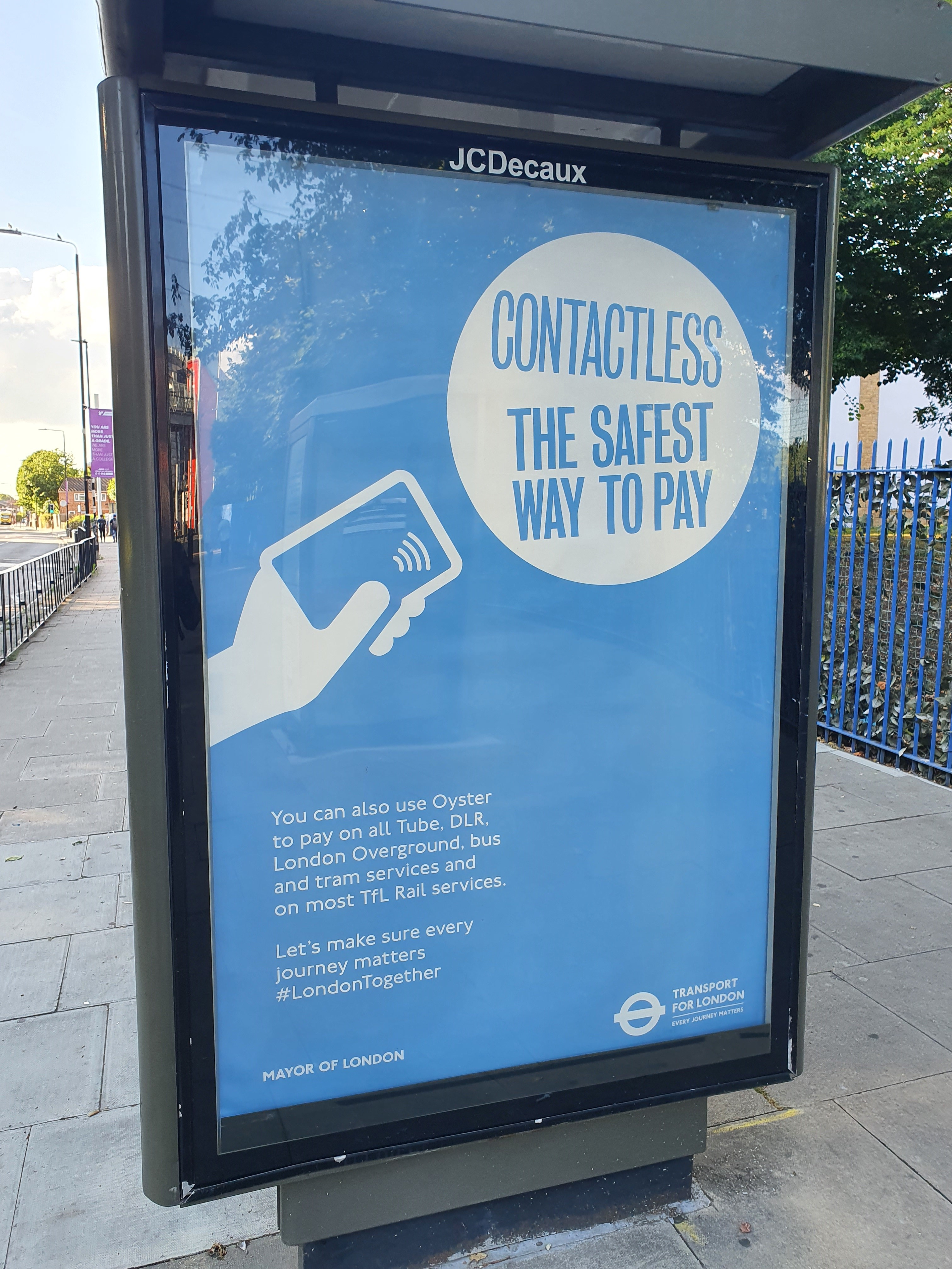 A bus stop ad by Transport for London, displaying the slogan "Contactless The Safest Way to Pay", advertising contactless payment during the COVID-19 pandemic in June 2020.